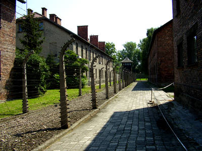 Auschwitz Birkenau